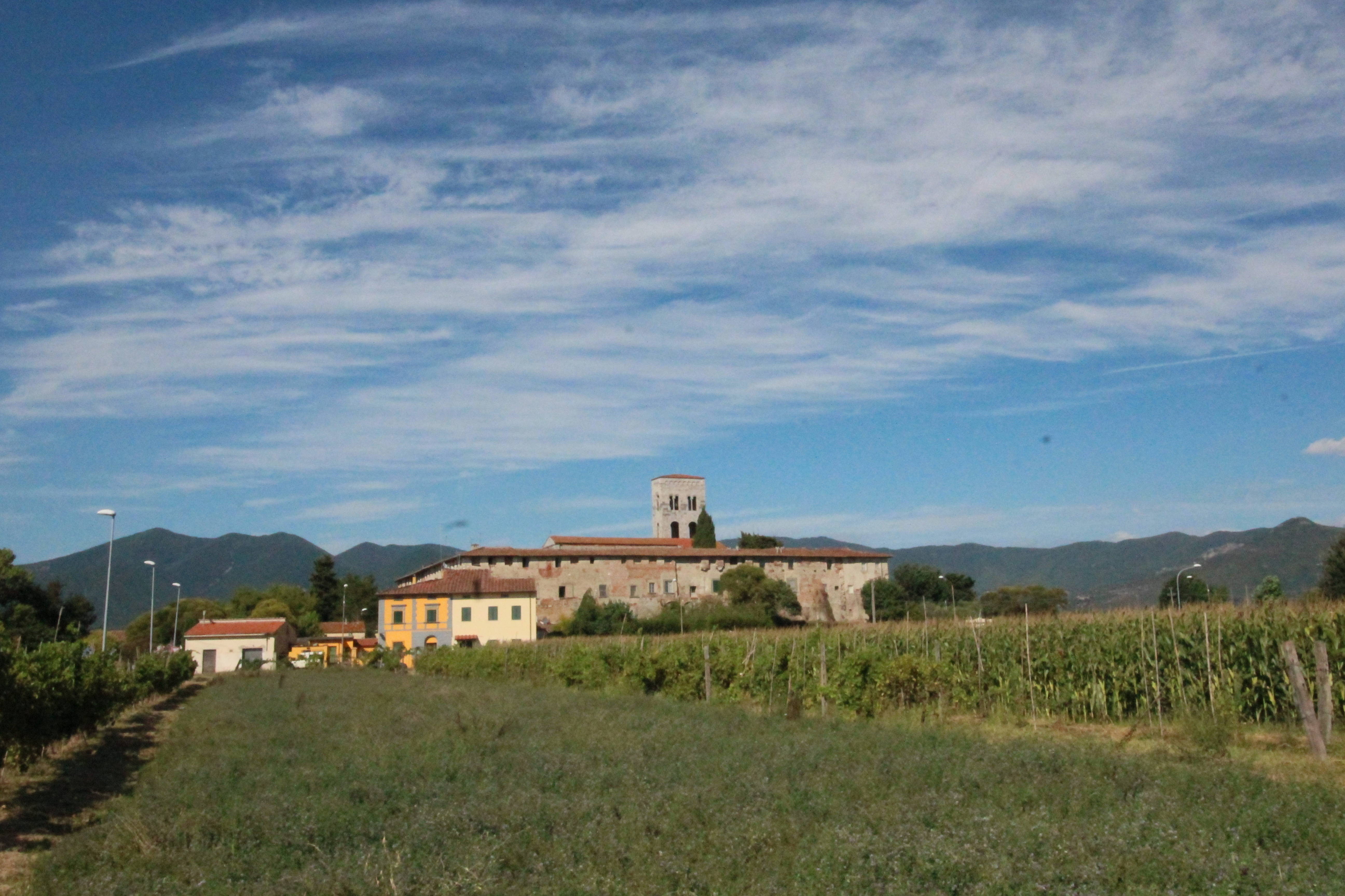 Panorama of the Abbey Badia San Savino (Abbazia di San Savino) in Montione, hamlet of Cascia, Province of Pisa, Tuscany, Italy